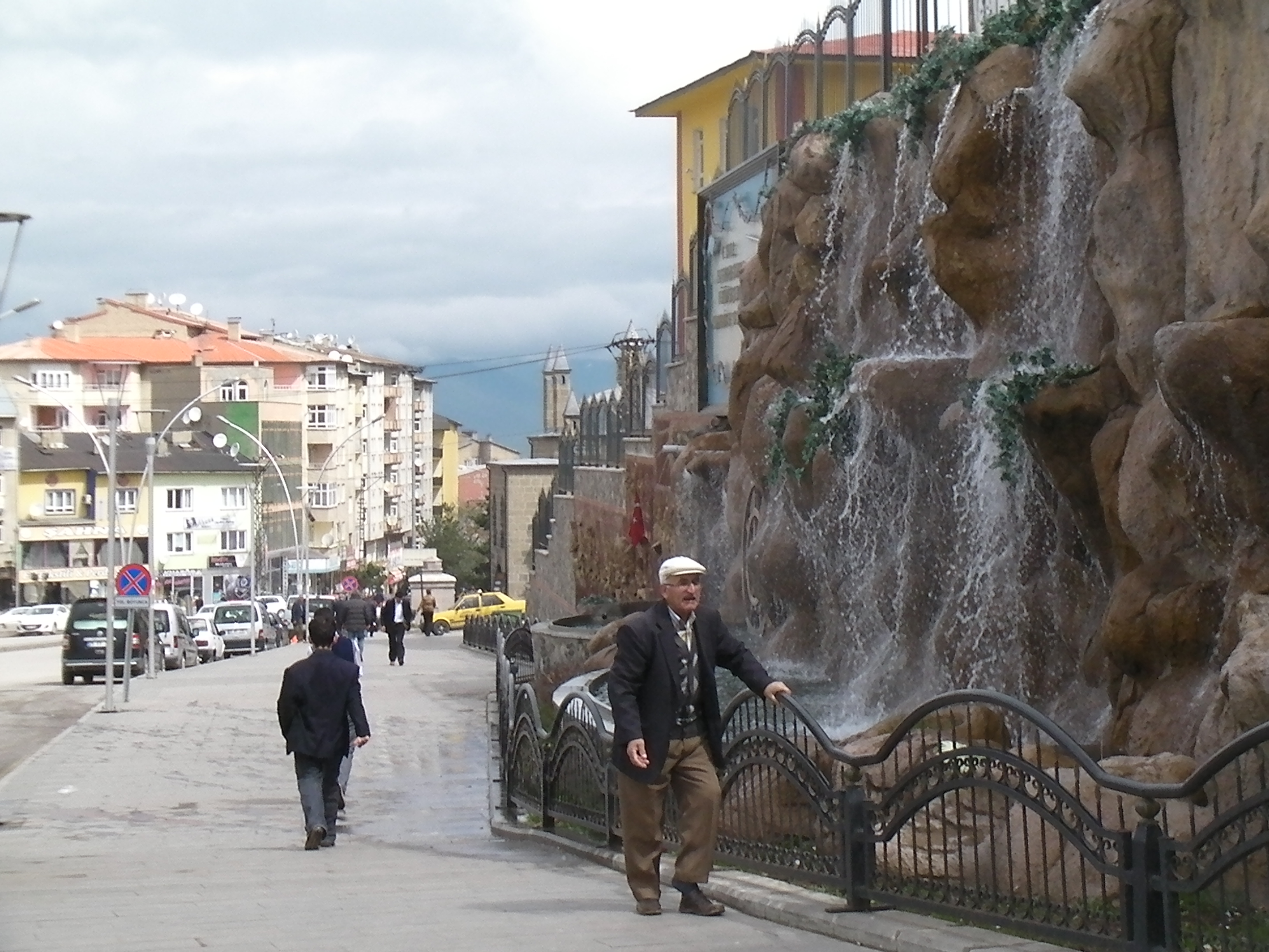 central Erzurum, Turkey